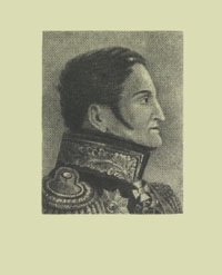 Michail Leontievich Bulatov (Михаил Леонтьевич Булатов), (1760 in Rjazan, 2 May 1825 in Omsk), was a Russian military who fought during the Russo-Turkish War (1787-1992) and became Major General in 1799 during the Napoleonic Wars and lieutenant-general in 1823.